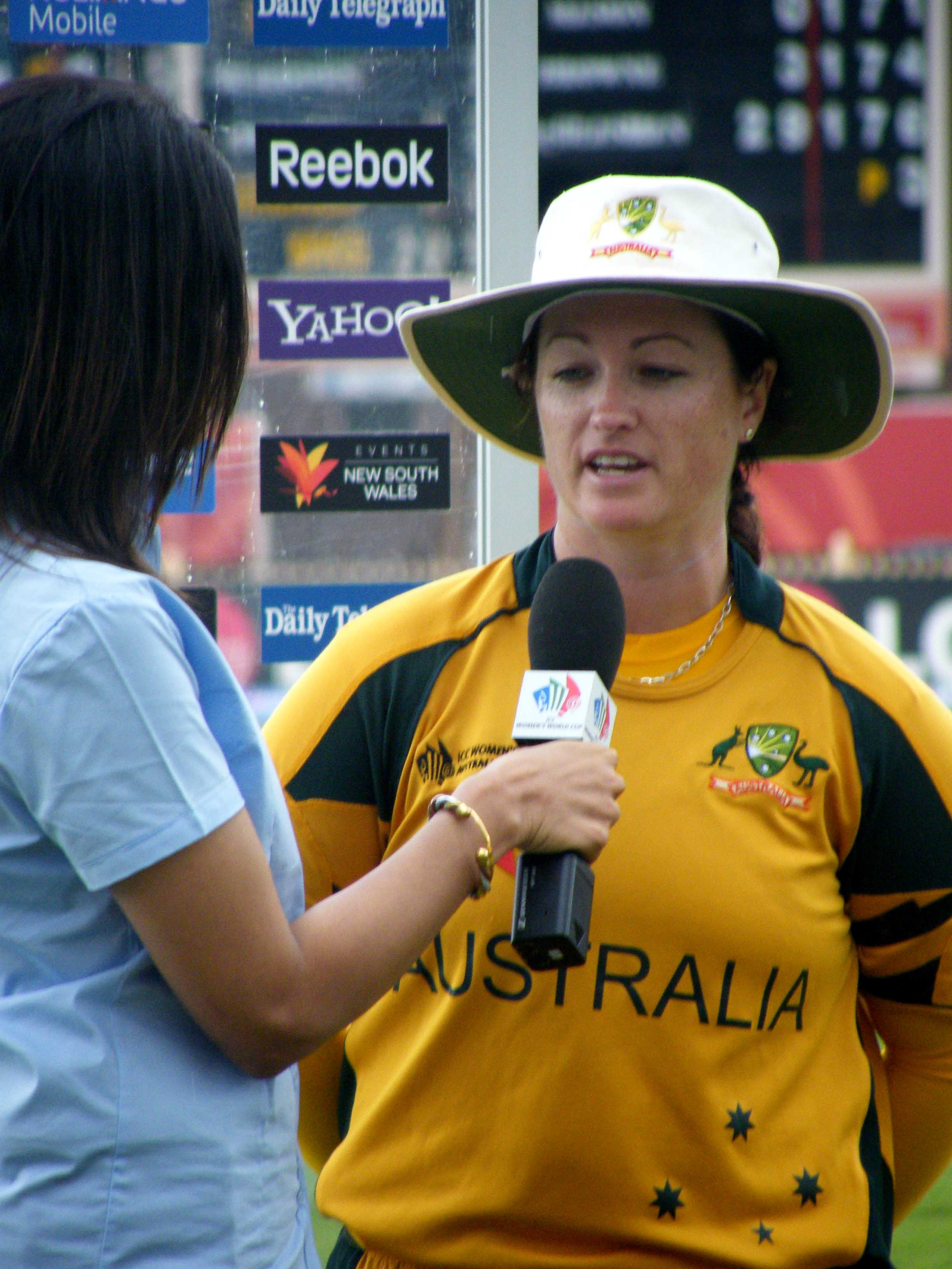 Karen Rolton of Australia - ICC Womens Cricket World Cup - Sydney, March 2009.